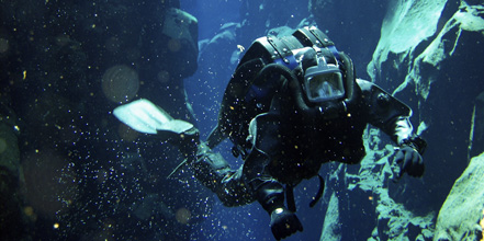 Swedish mine clearance diver